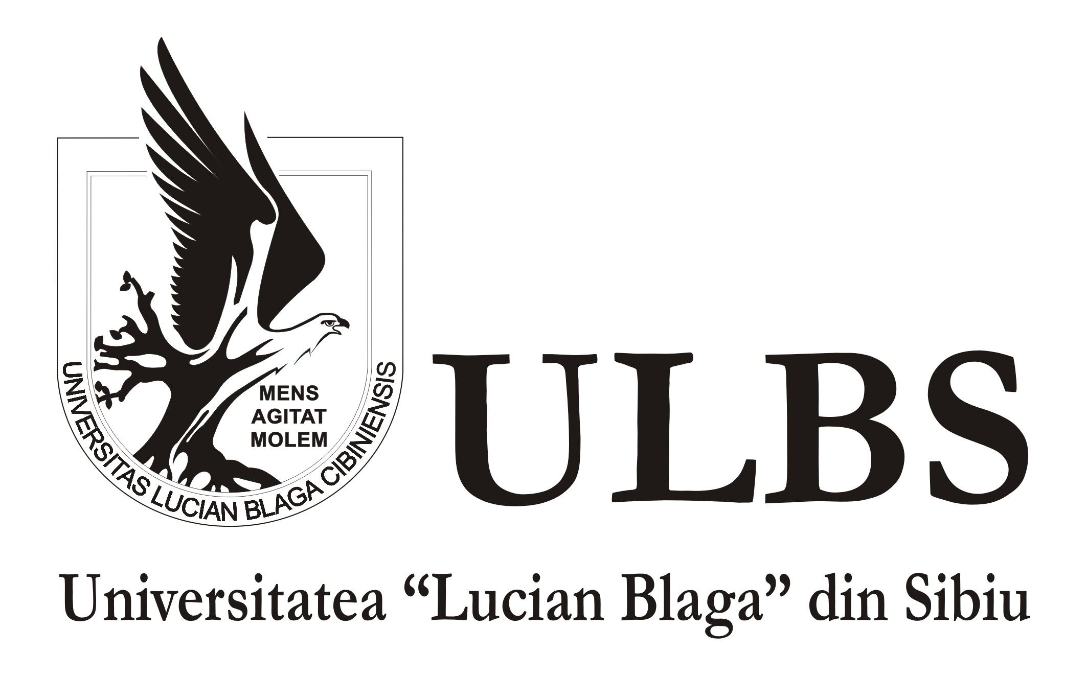 The seal of 'Lucian Blaga' University of Sibiu